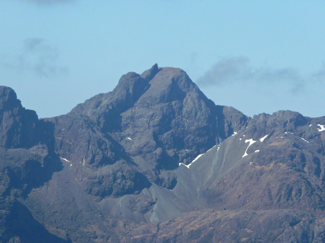 Sgurr Dearg Sgurr Dearg and the In Pin, seen from about 10k away on Garbh-bheinn.